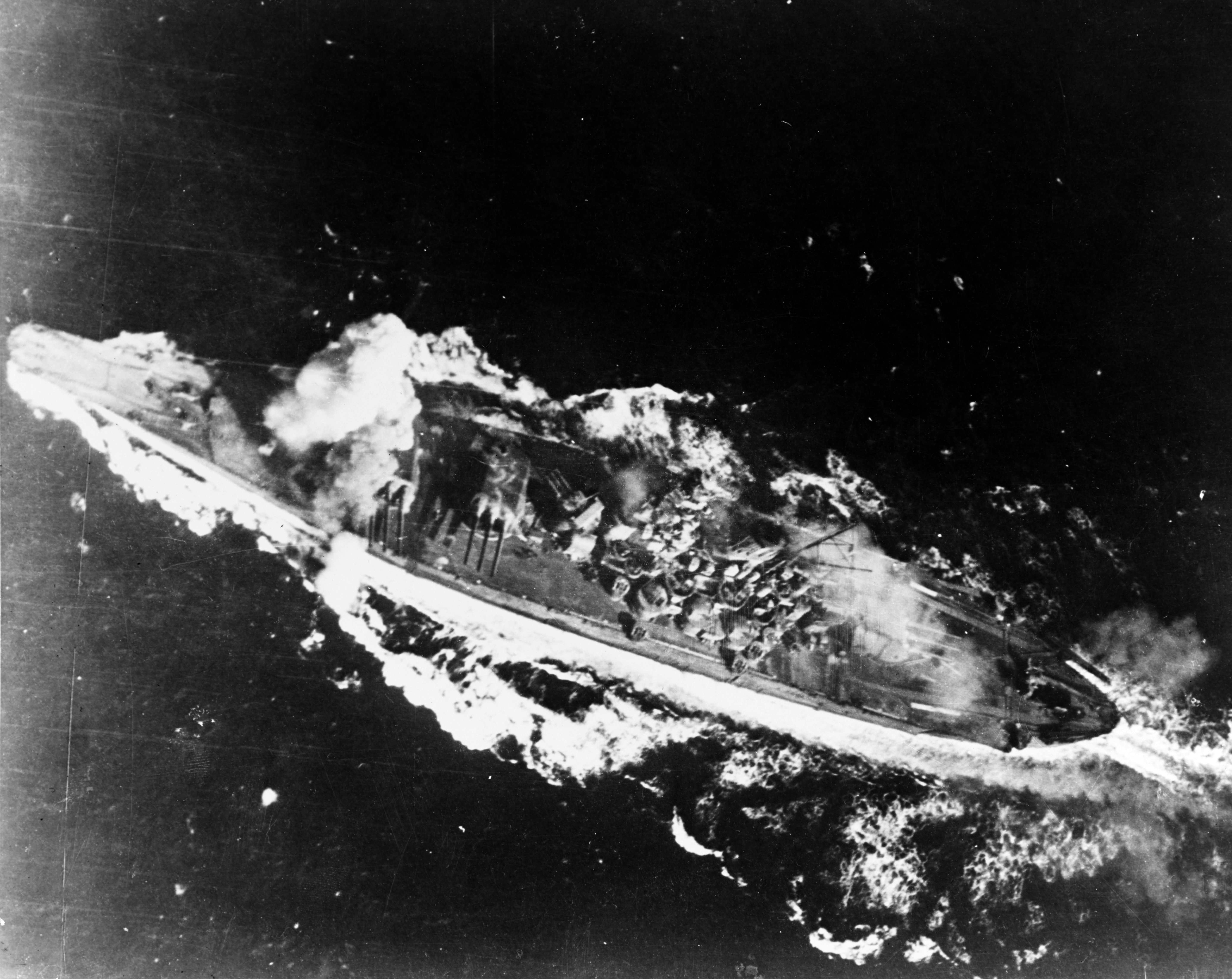 Battle of the Sibuyan Sea, 24 October 1944: The Japanese battleship Yamato is hit by a bomb near her forward 460mm gun turret, during attacks by U.S. carrier planes as she transited the Sibuyan Sea. This hit did not produce serious damage.